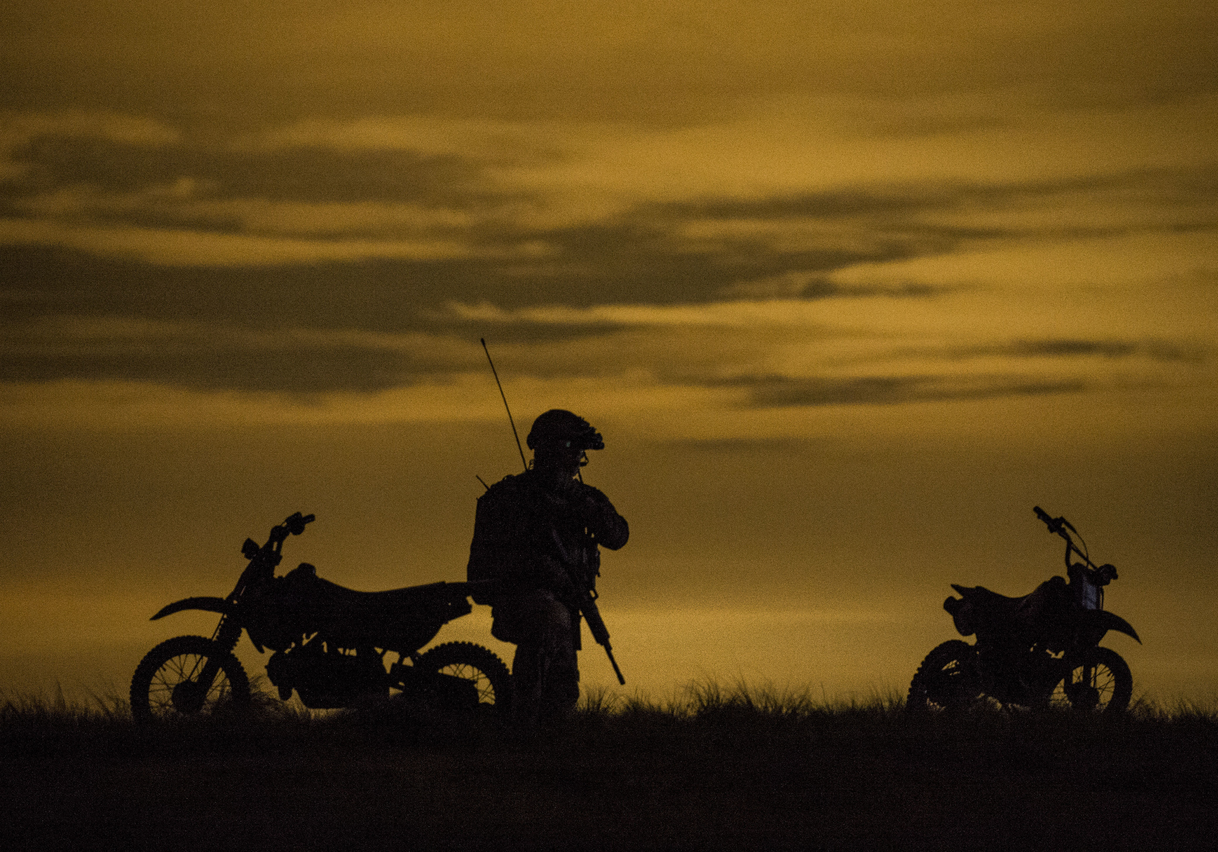 A U.S. Air Force combat controller from the 21st Special Tactics Squadron stands by to provide support during a cargo and personnel airdrop at the Holland Drop Zone in Fort Bragg, N.C., April 13, 2015, as part of the Combined Joint Operational Access Exercise 15-01. CJOAX 15-01 is an 82nd Airborne Division-led bilateral training event at Fort Bragg, N.C., from April 13-20, 2015. This is the largest exercise of its kind held at Fort Bragg in nearly 20 years and demonstrates interoperability between U.S. Army and British Army soldiers and U.S. Air Force, Air National Guard, Royal Air Force airmen and U.S. Marines. Special Tactics combat controllers integrate air power into ground special operations for mission success, deploying into forward hostile areas to establish assaults zones, provide air traffic control capability, and control offensive airstrike operations. (U.S. Air Force photo by Senior Airman Marianique Santos/Released)